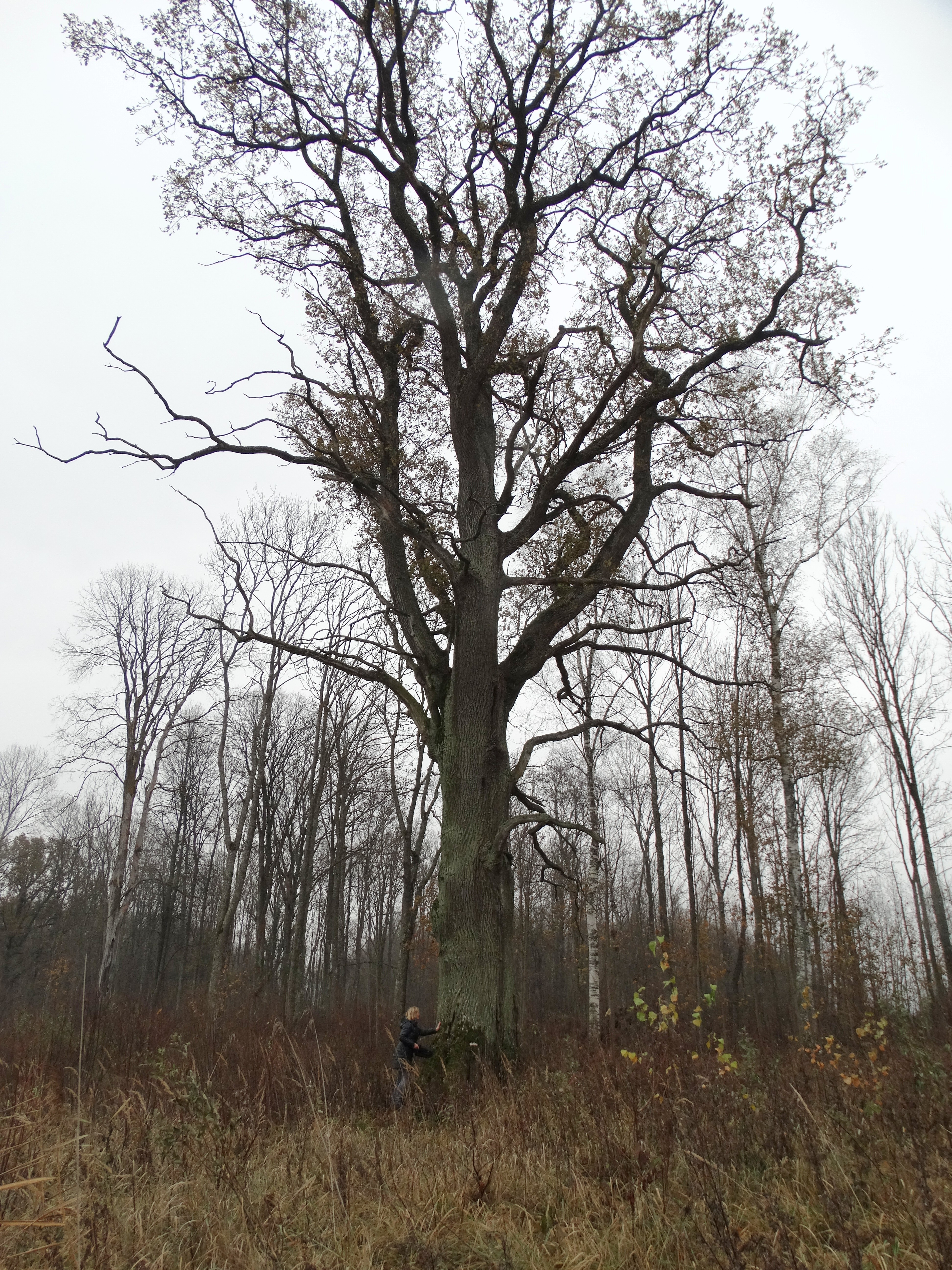 Oak tree in Putriškis, Pasvalys District, Lithuania